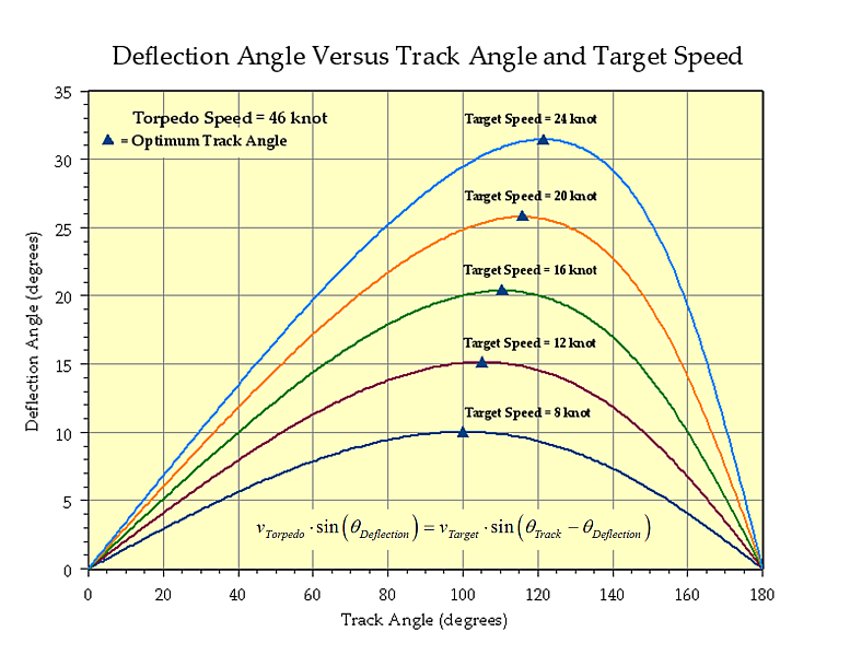 Graph of deflection angle versus track angle and vessel speed